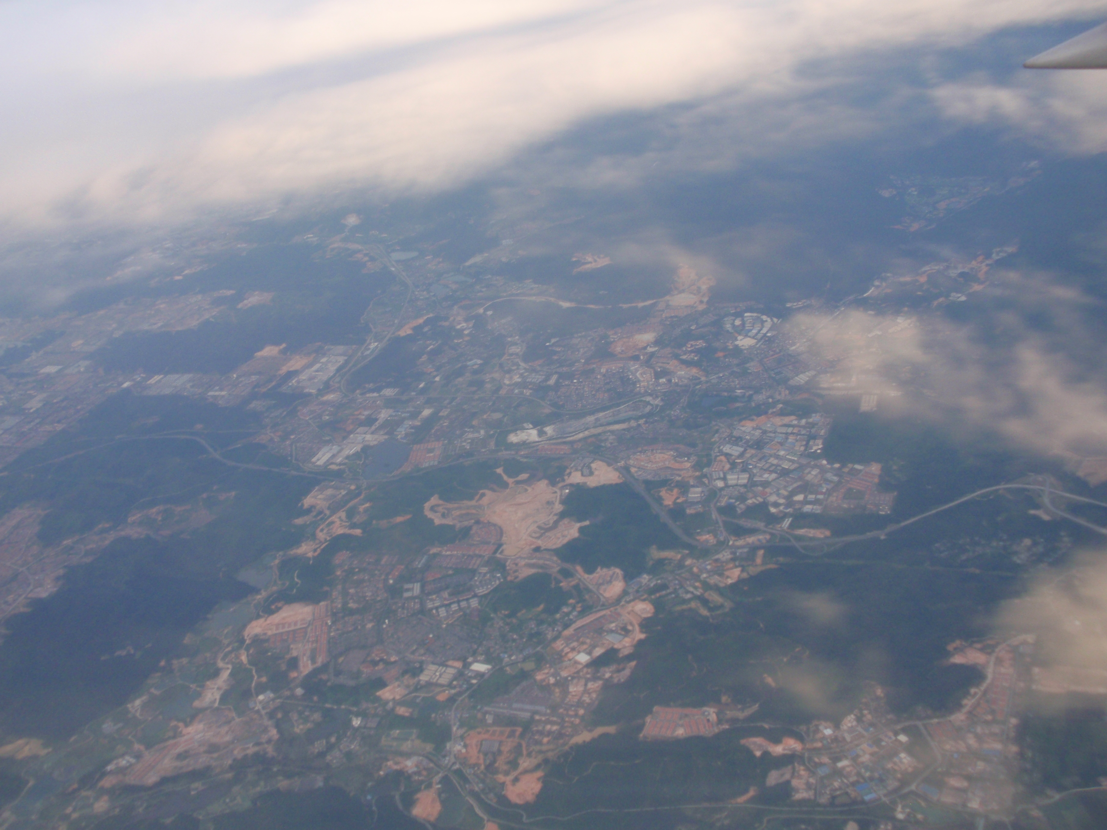 This is seen as our plane descended from the skies as it got closer to Kuala Lumpur International Airport (KUL). Rawang is located north of Kuala Lumpur.